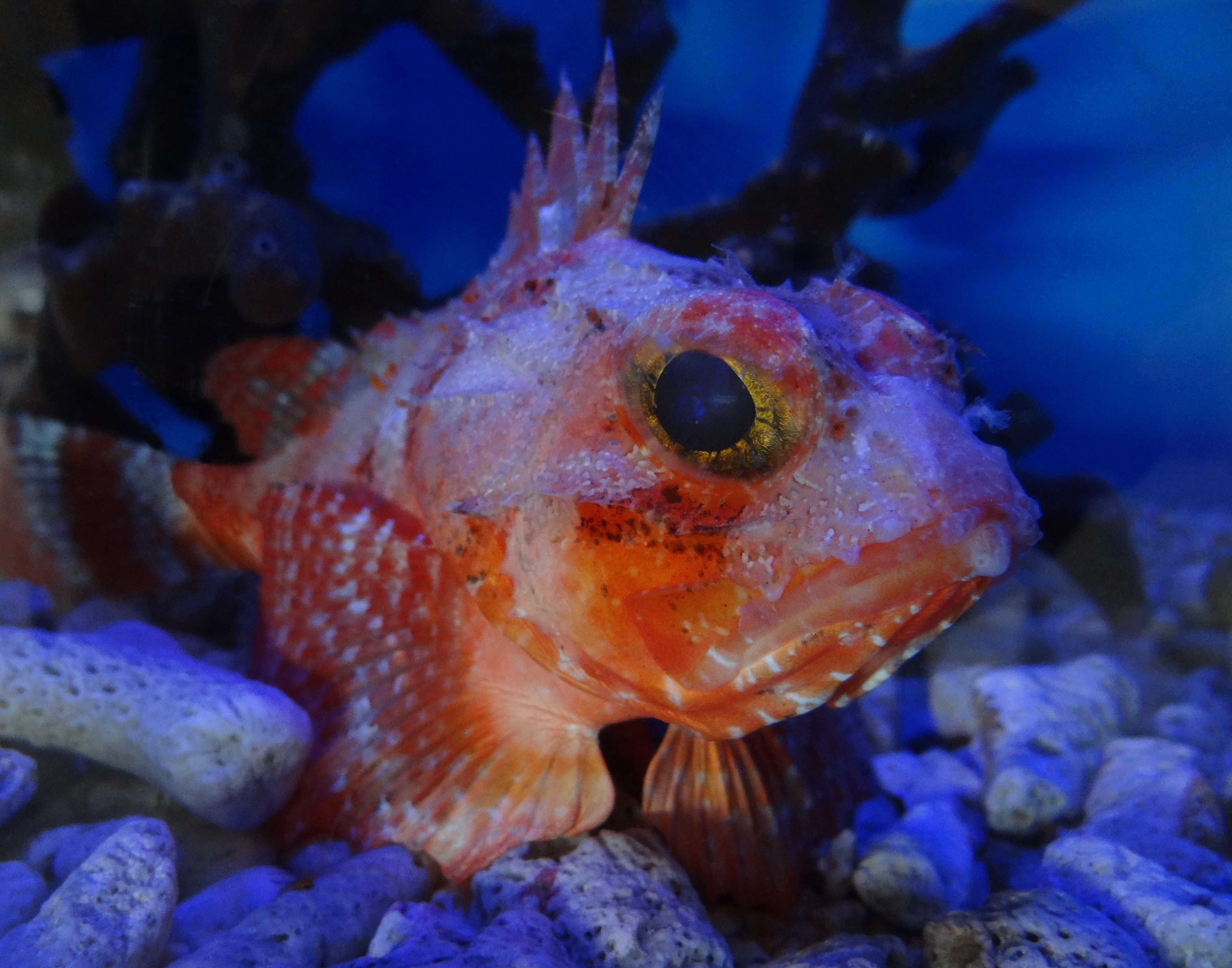 A specimen yet to be exactly classified, but it is a trachyscorpia. Kept and photographed at the Sea Aquarium in Curacao.